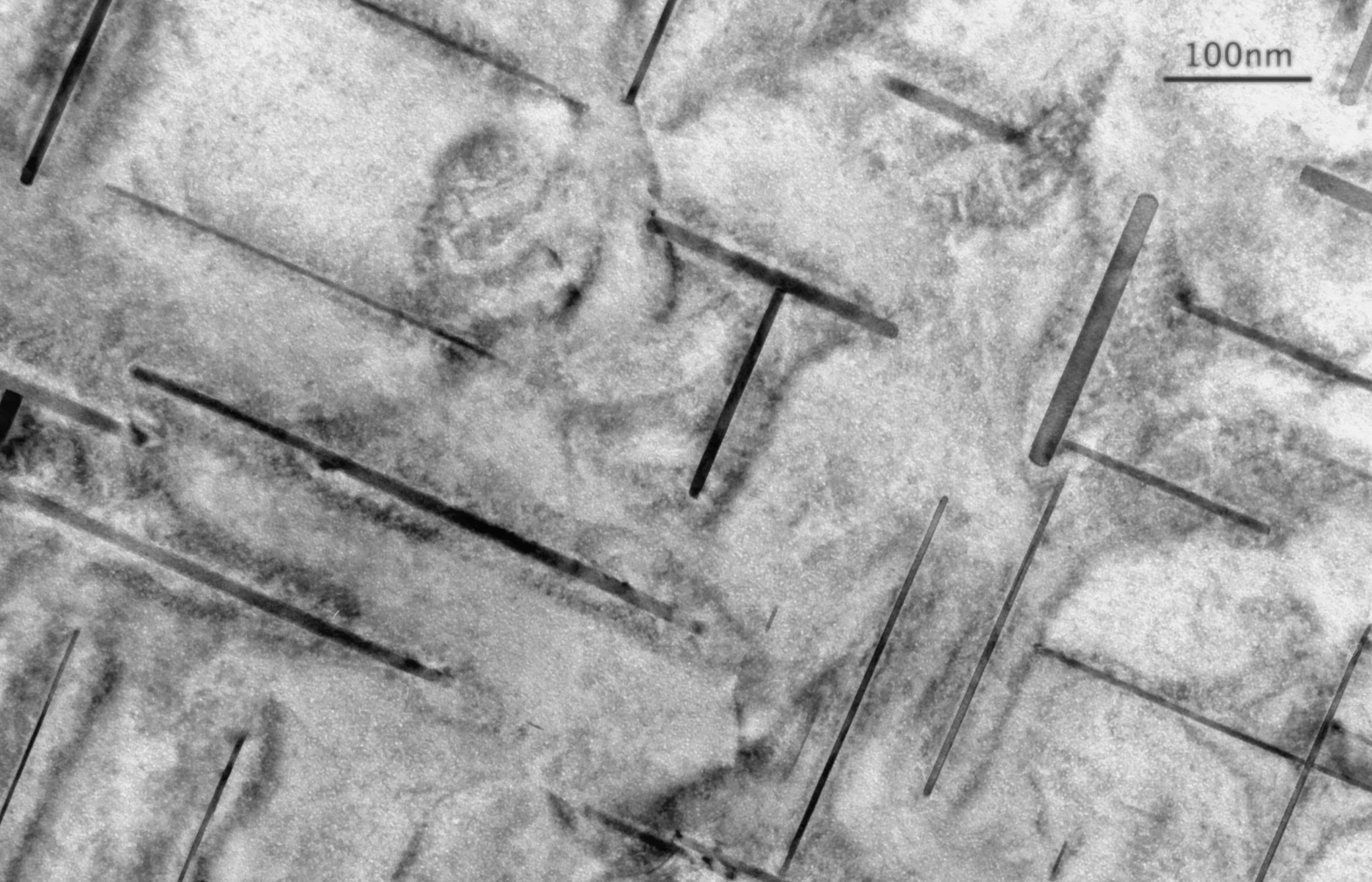 TEM Bright field image of an Al-Cu alloy specimen, with precipitates (plates) seen in host matrix, lying along their habit planes. Specimen prepared by electropolishing and argon ion-milling. Self Made. Al-Cu alloy taken at 100kV on a Phillips TEM, scanned film image. Image enhancements: Despeckle, cropped, reduced size (cubic), levels adjustment (GIMP). Scale bar is approximate as image uncalibrated. (image is not that great, but hopefully useable)